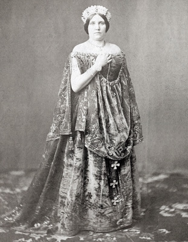 Full-length portrait of English-American actress Madame Ponisi (cropped and desaturated)